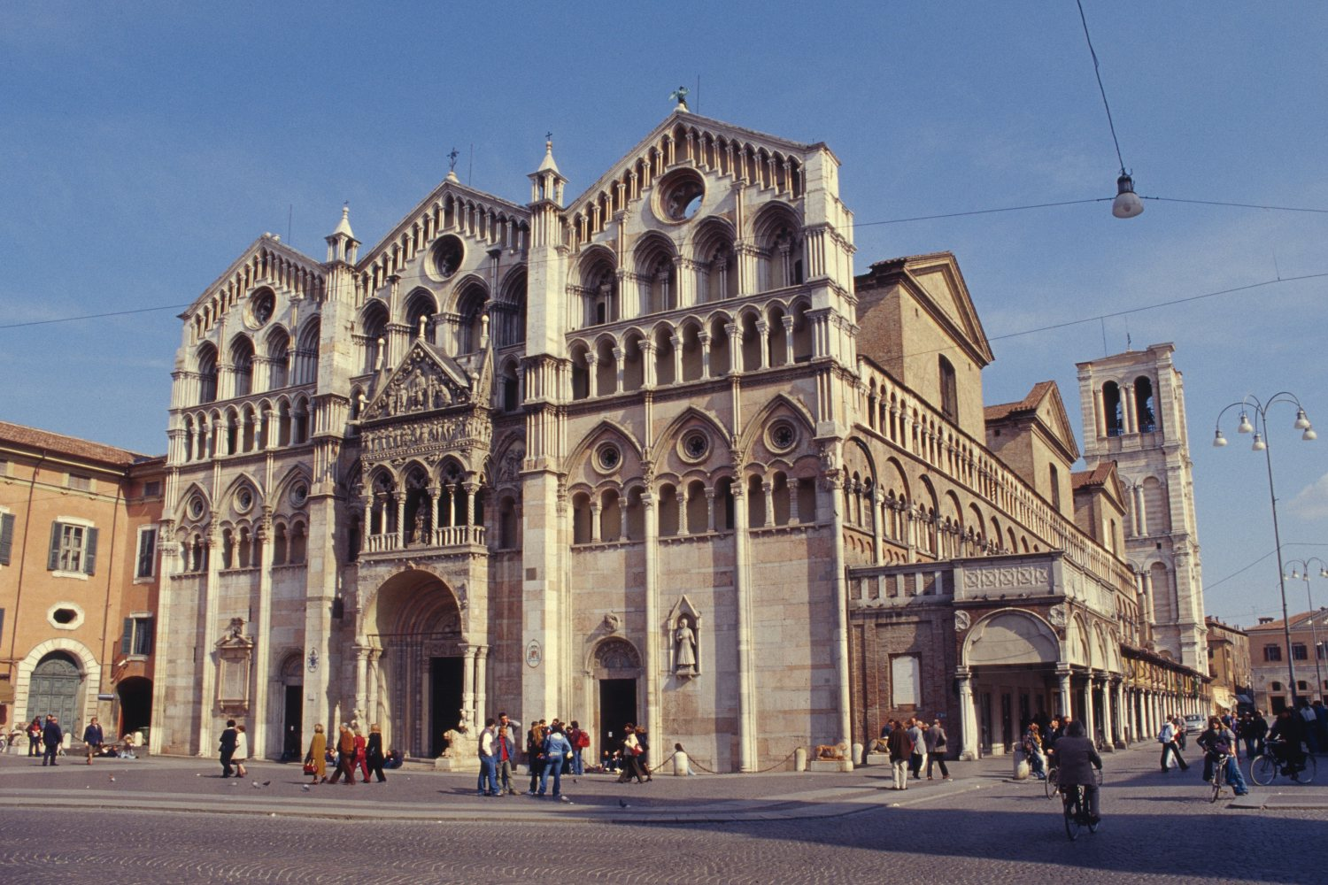 Description: The romanesque Cathedral of Ferrara, Italy own image, taken March 26th, 2002 Photographer: Herbert Ortner, Vienna, Austria